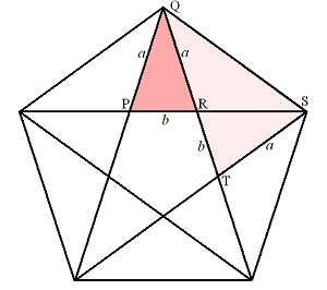 Shows what necessary to derive the golden section from a pentagram.